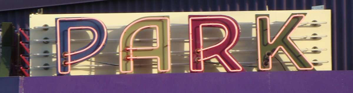 The neon marquee sign of the Park Theatre, in Hayward, Wisconsin.